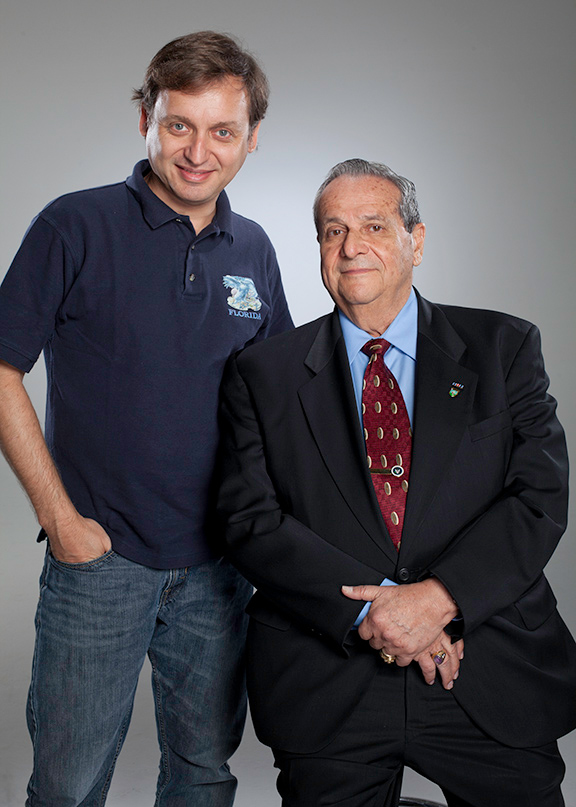 Félix Ismael Rodríguez (born 31 May 1941) is a former Central Intelligence Agency officer known for his involvement in the Bay of Pigs Invasion, in the interrogation and execution of Marxist guerilla Che Guevara and his ties to George H. W. Bush during the Iran–Contra affair. He is Cuban of Spanish Basque ancestry.